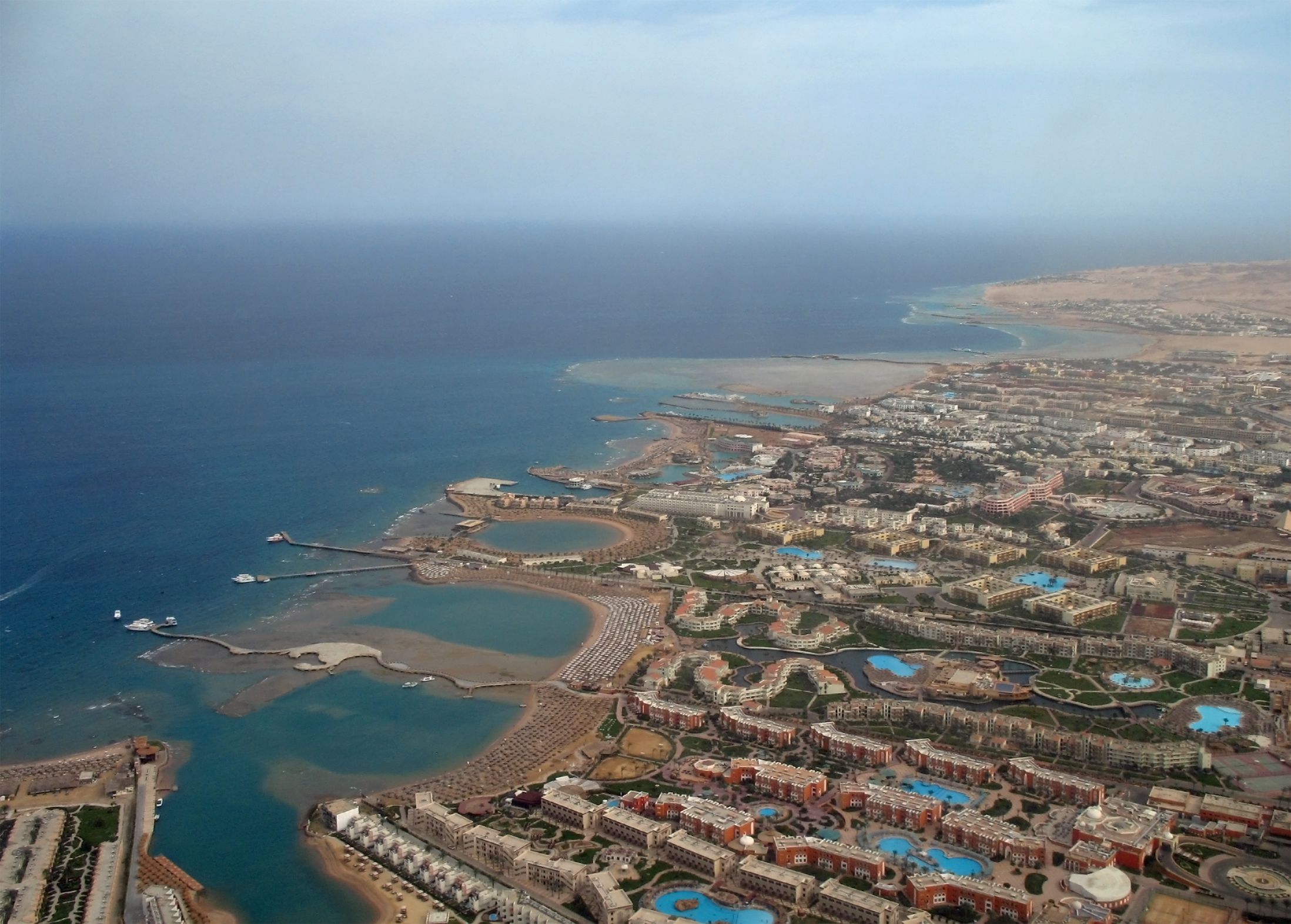 Hurghada (Egypt): hotels in the southern part of the town